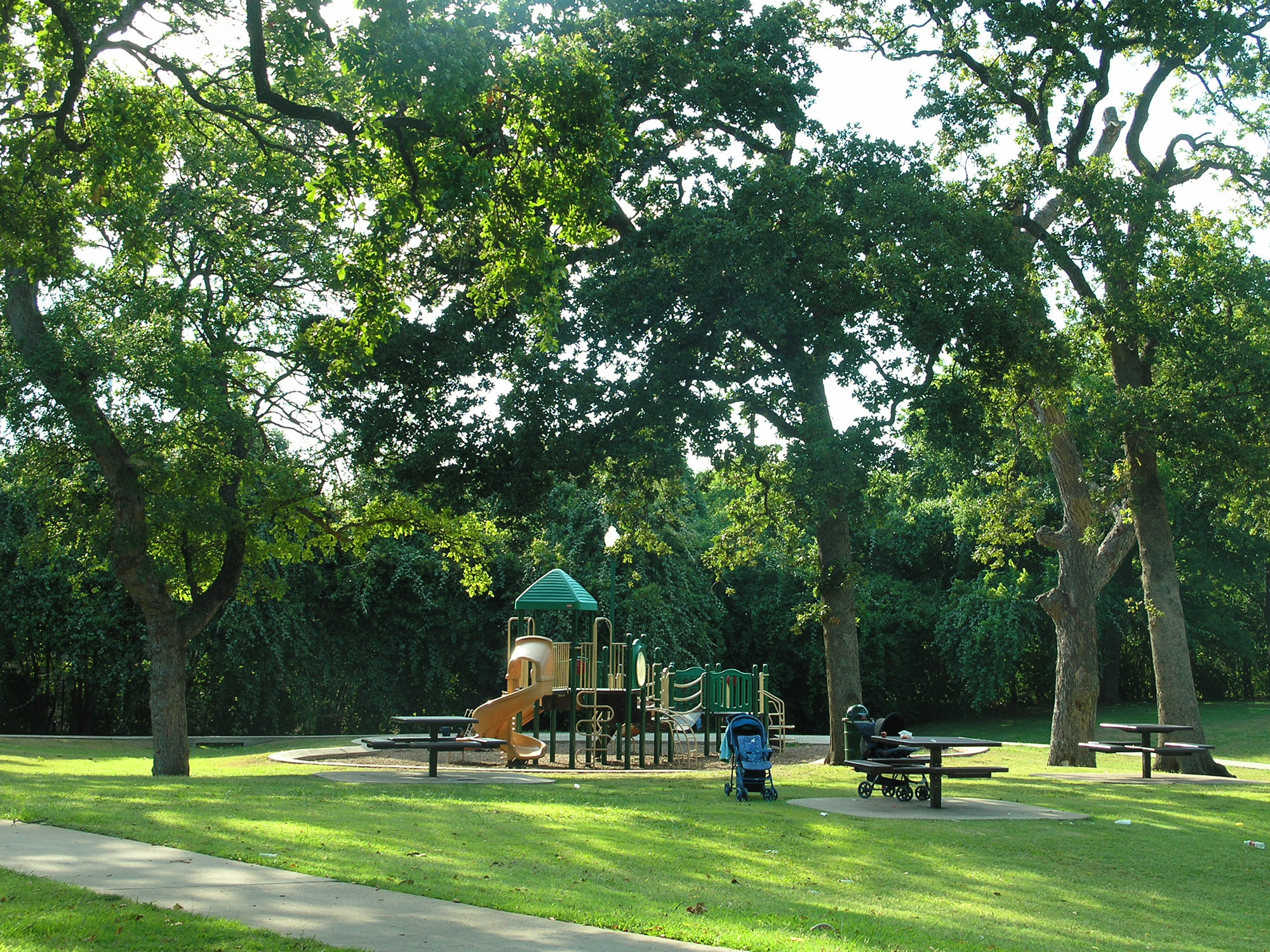 Craddock Park, just northwest of the Perry Heights neighborhood of Oak Lawn, Dallas, Texas (USA).